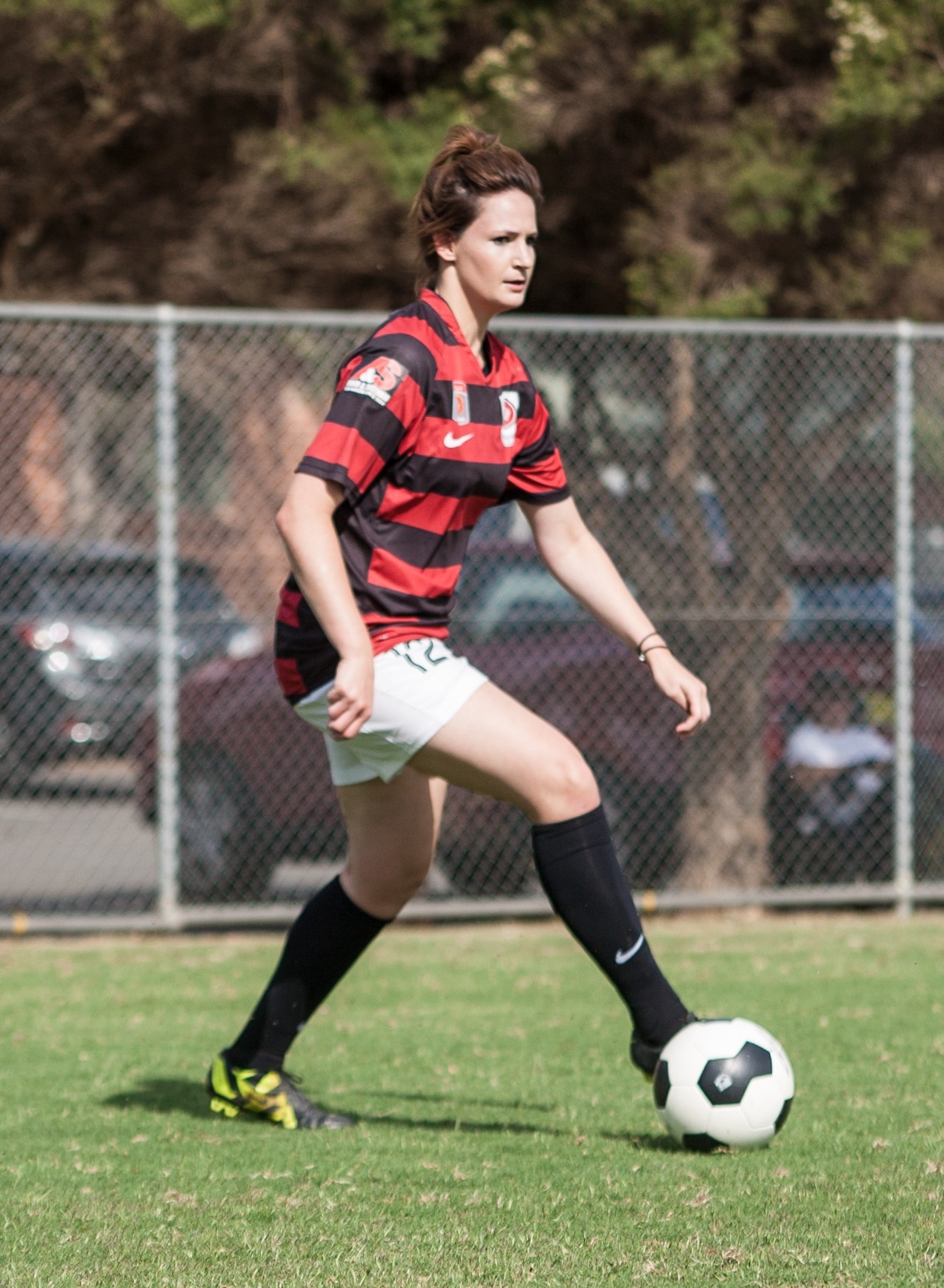 Jessica Seaman playing for Western Sydney Wanderers